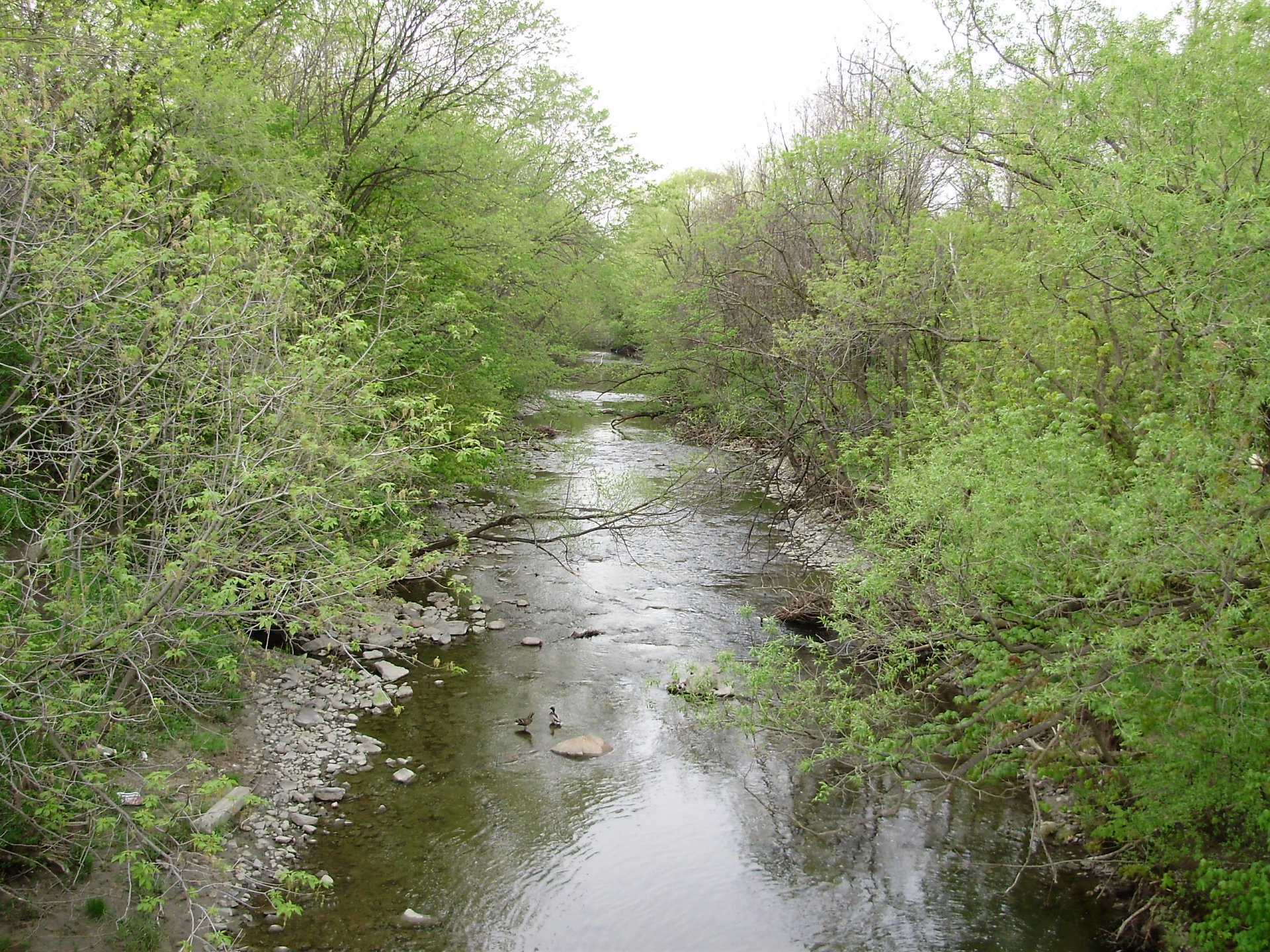 Mimico Creek in Etobicoke, Ontario, as it passes south of Bloor Street West.